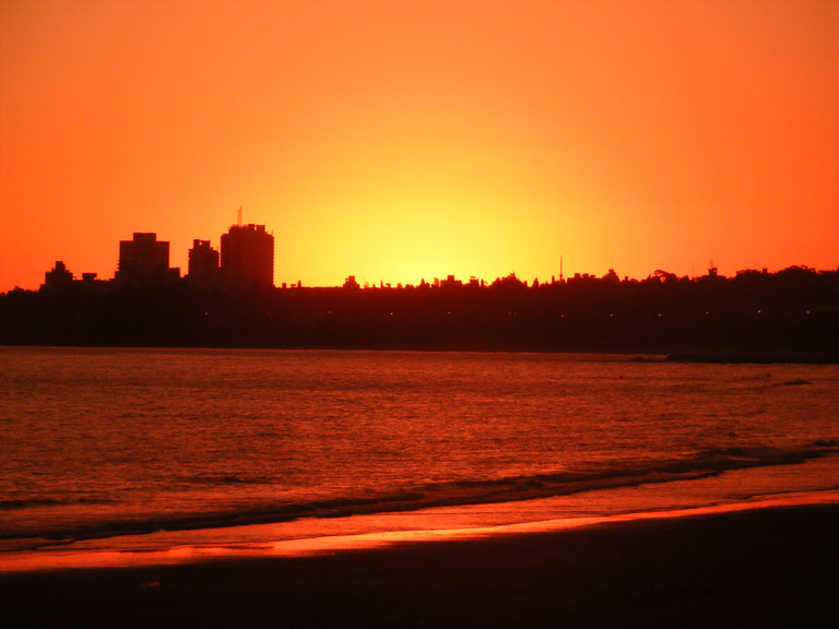 Montevideo sunset at Malvin beach.